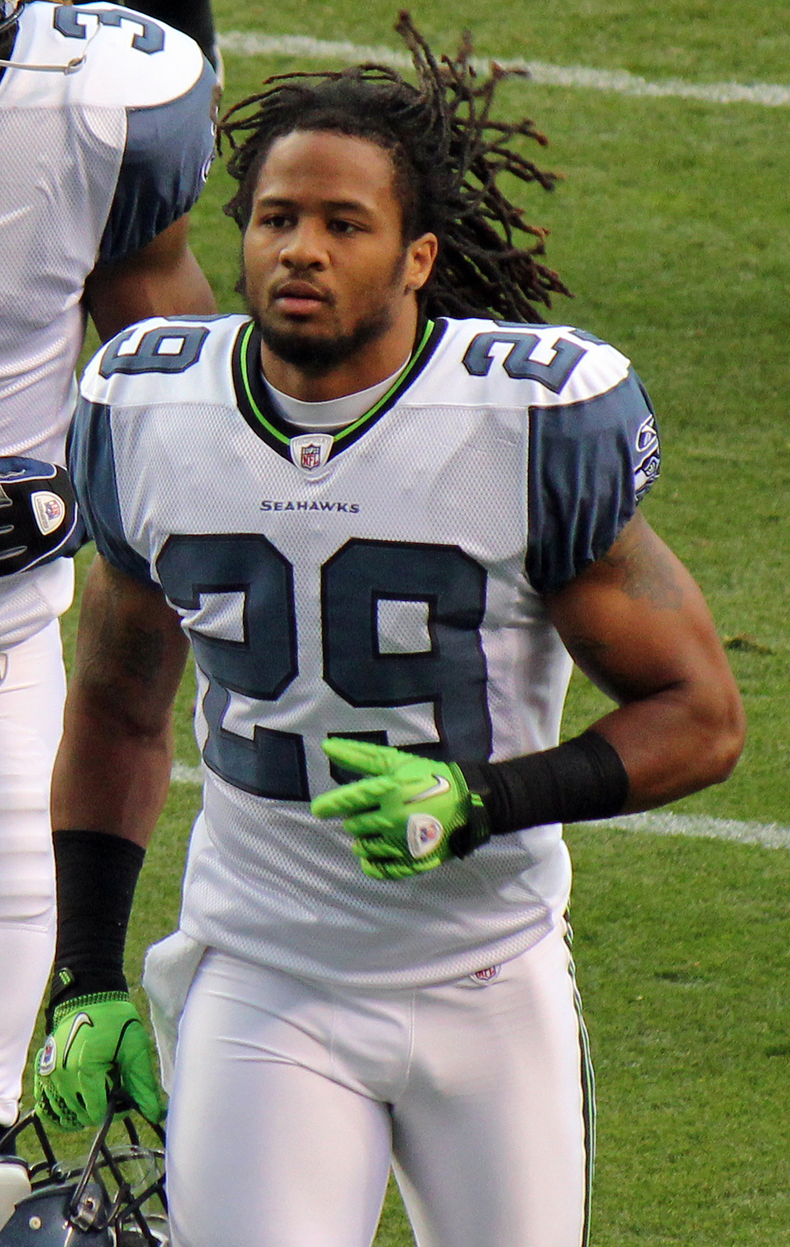 Earl Thomas, a player on the National Football League.